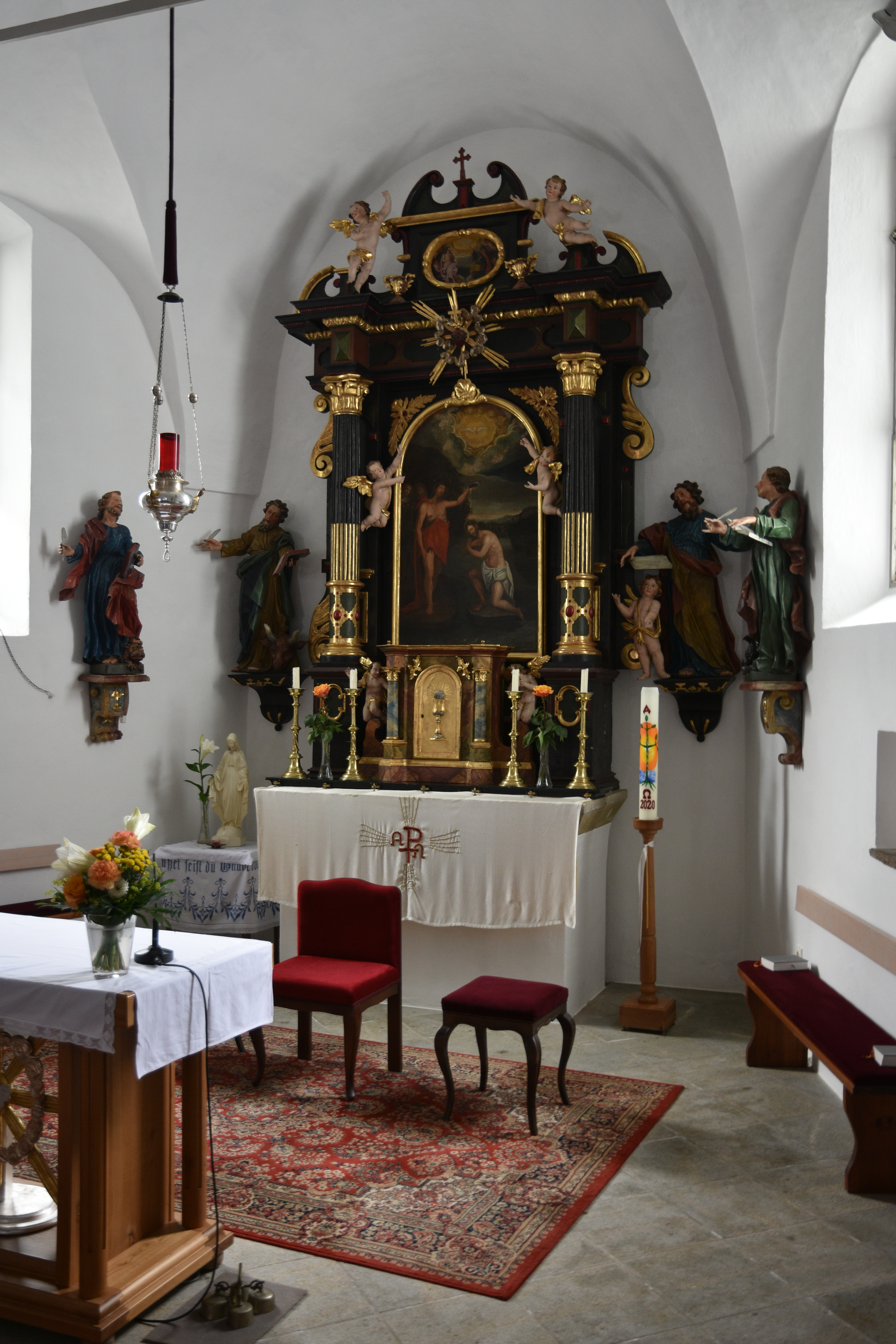 Saint John the Baptist Church Eichberg Styria Interior